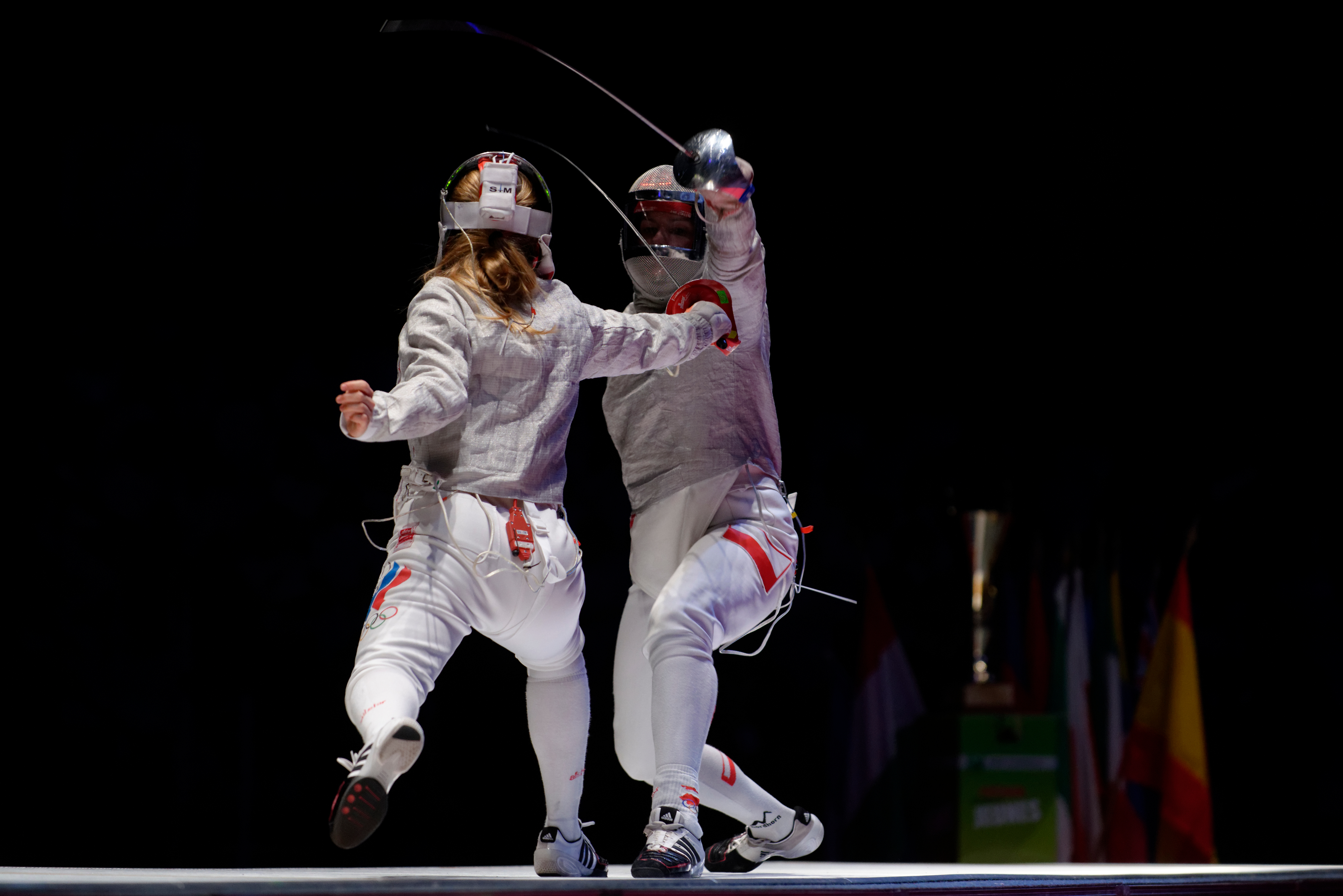 Russia's Yekaterina Dyachenko (left) fences against Małgorzata Kozaczuk of Poland (right) in the quarter-finals at the Trophée BNP Paribas-Grand Prix FIE, first stage of the women's sabre World Cup, in Orléans.